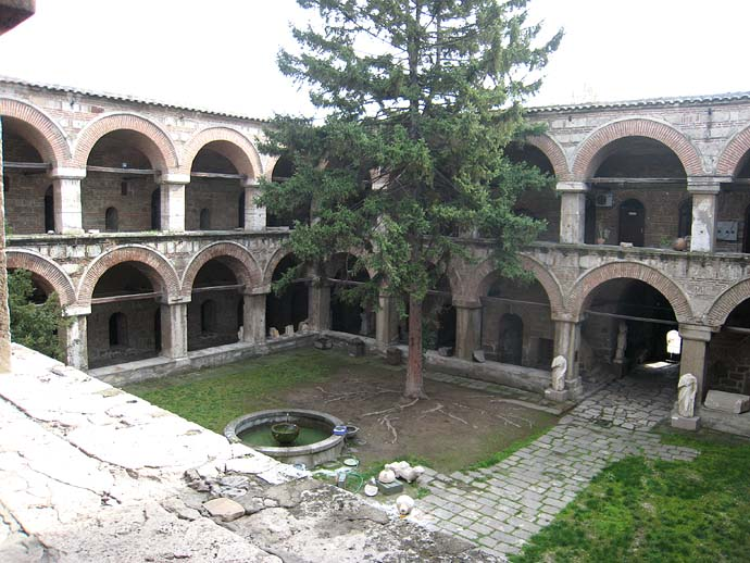 In the courtyard of the Kurshumli Han, Skopje